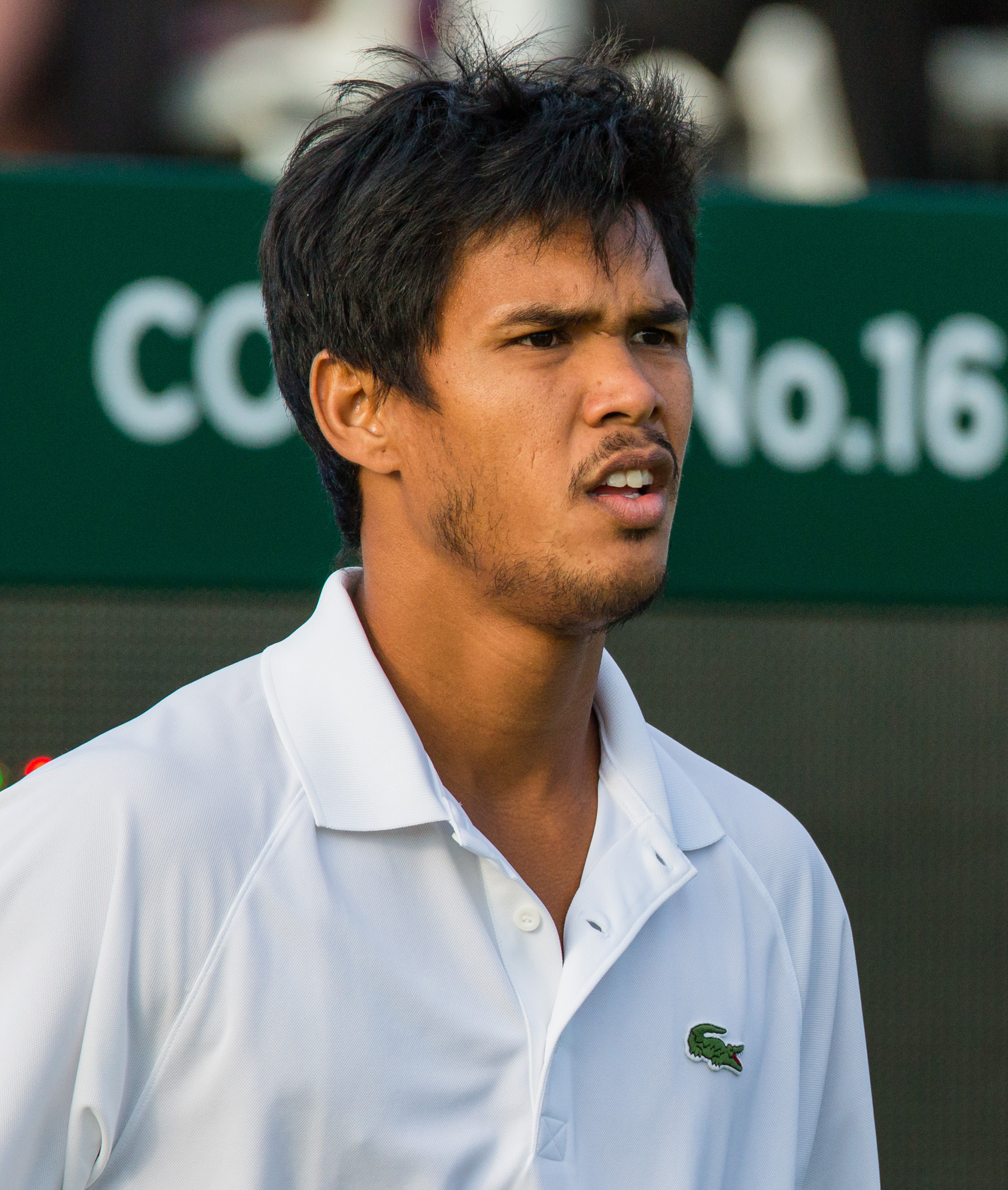 Somdev Devvarman competing in the first round of the 2015 Wimbledon Qualifying Tournament at the Bank of England Sports Grounds in Roehampton, England. The winners of three rounds of competition qualify for the main draw of Wimbledon the following week.